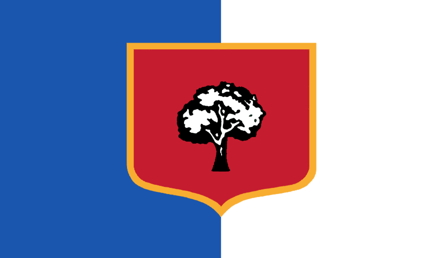 The flag of Lisbon, Ohio, as commissioned in 1913 as part of the 110th anniversary of the town.